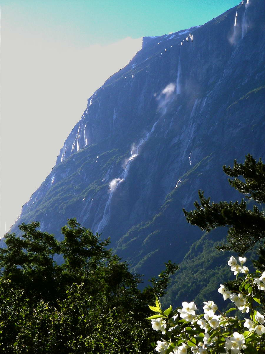 The Vinnufossen waterfall in Sunndal, Norway